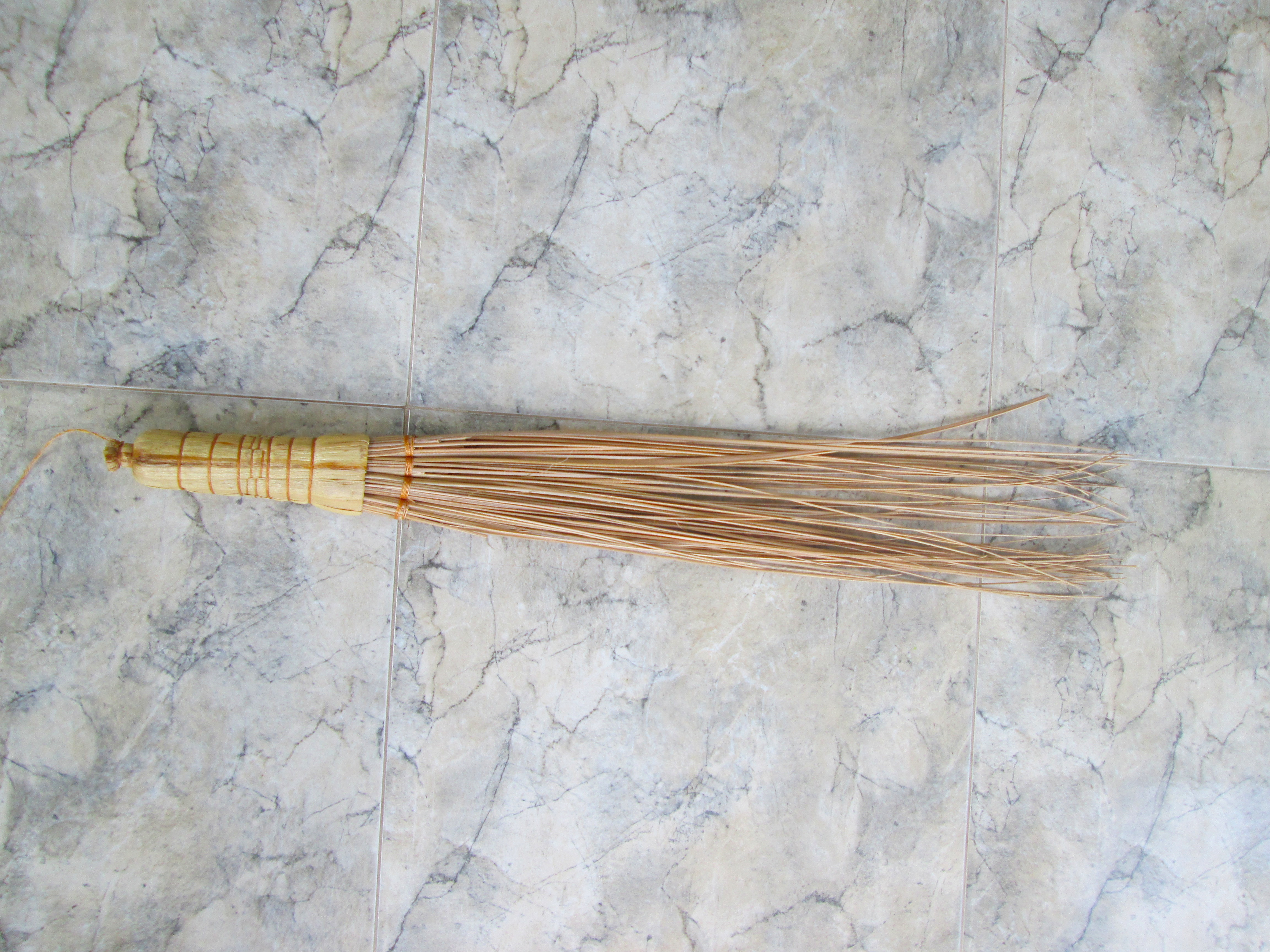 hard broom, made from coconut or palm leaves stick